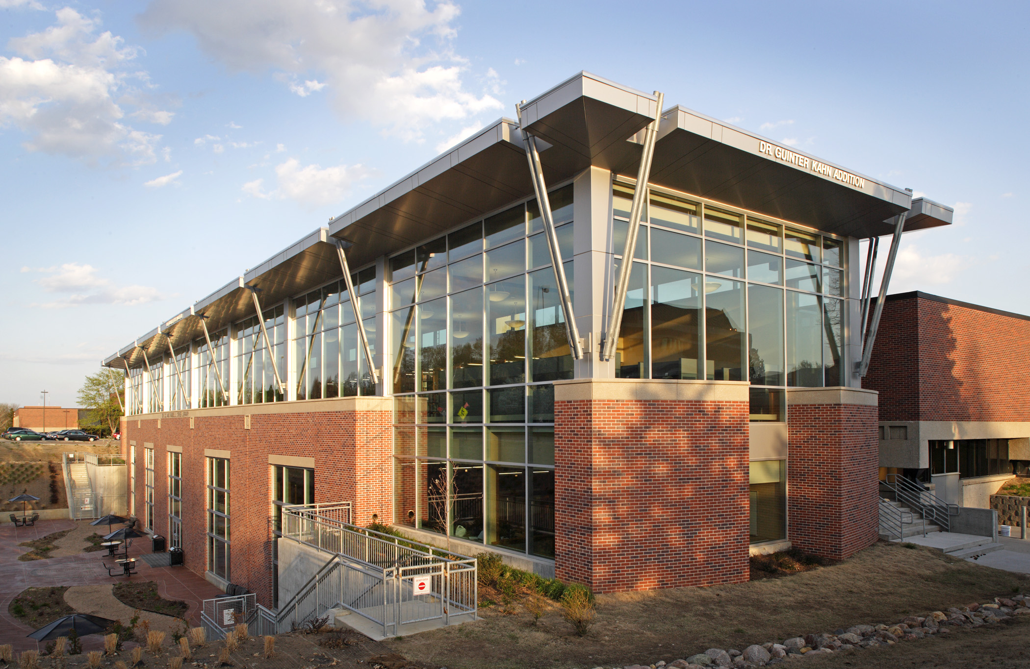 Criss Library, Dodge Street Facade (Kahn Addition), Omaha, NE